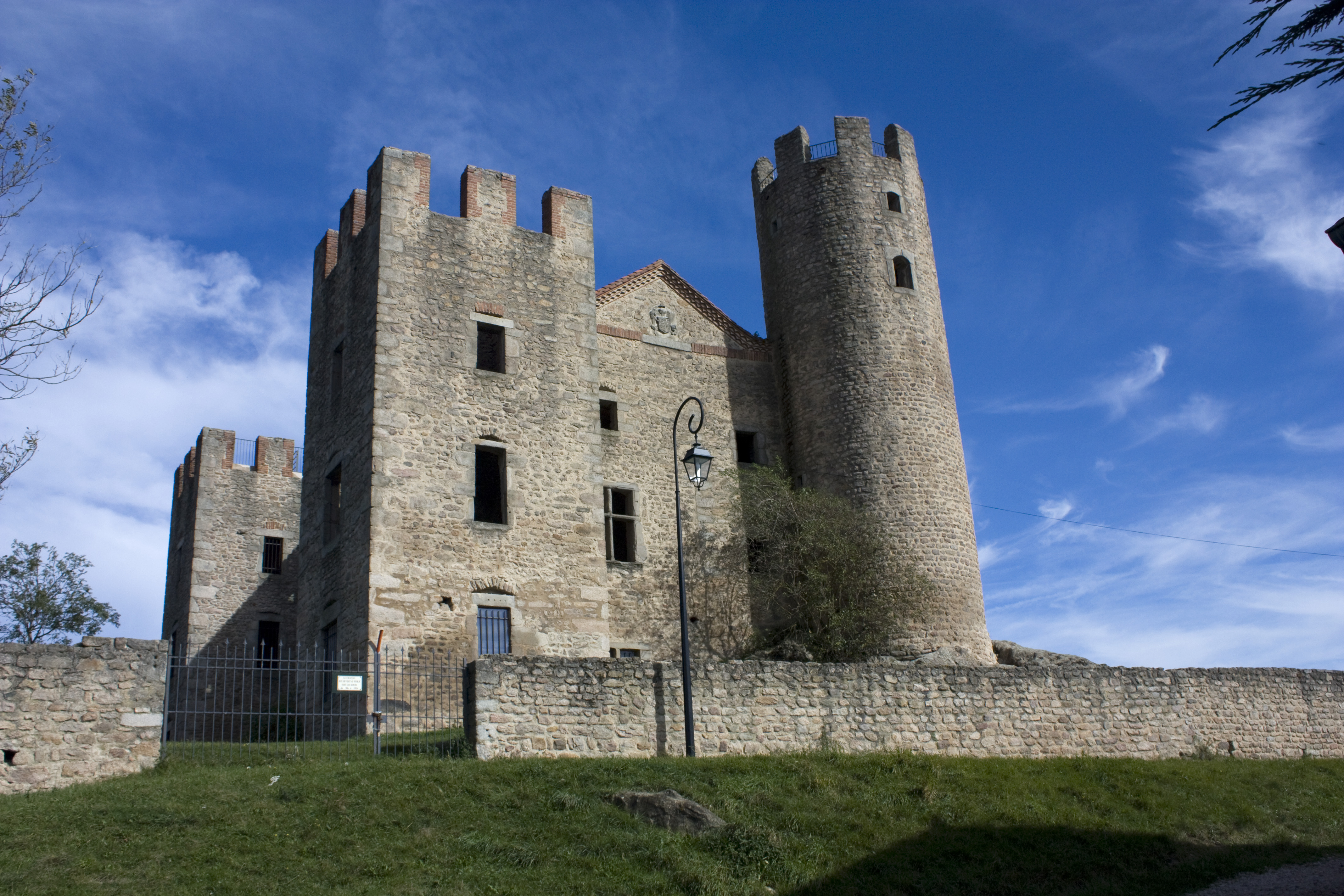 The west facade of the Castle of Essalois.